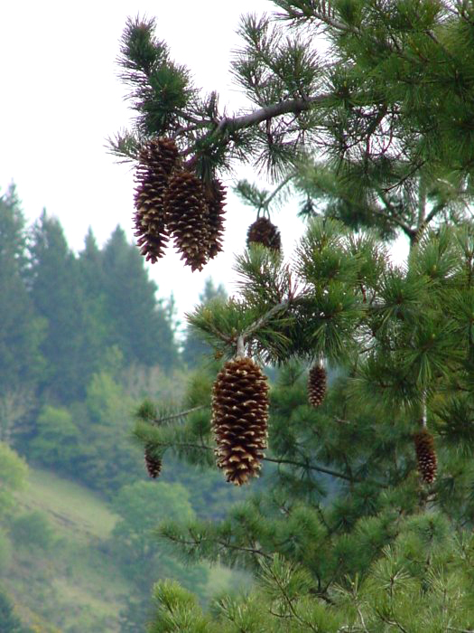 Pinus lambertiana foliage and old open seed cones